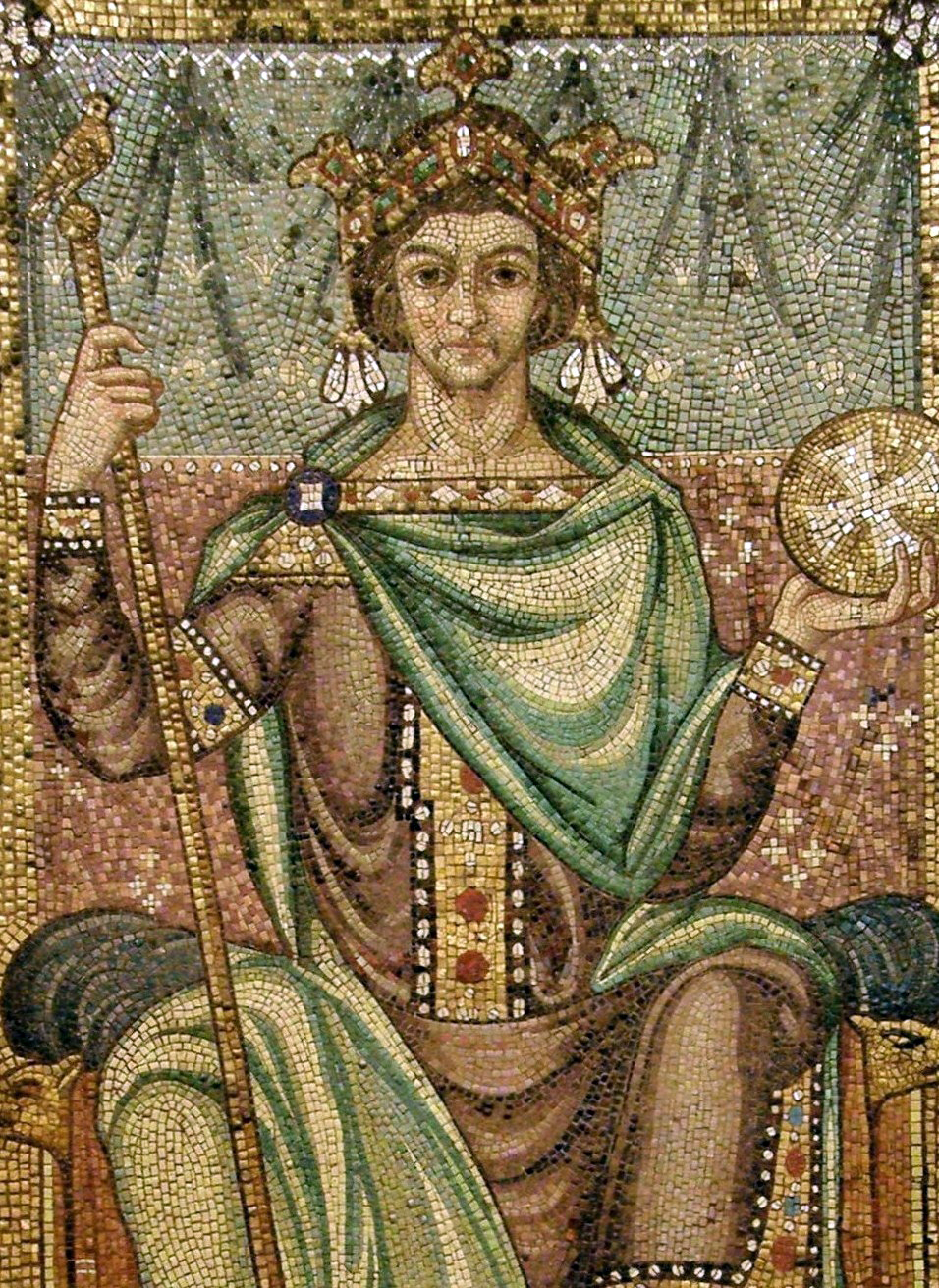 Henry II, Holy Roman Emperor.